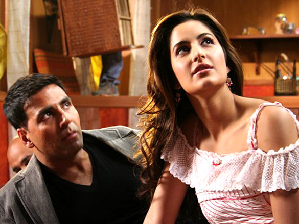 Akshay & Katrina on the sets of Welcome